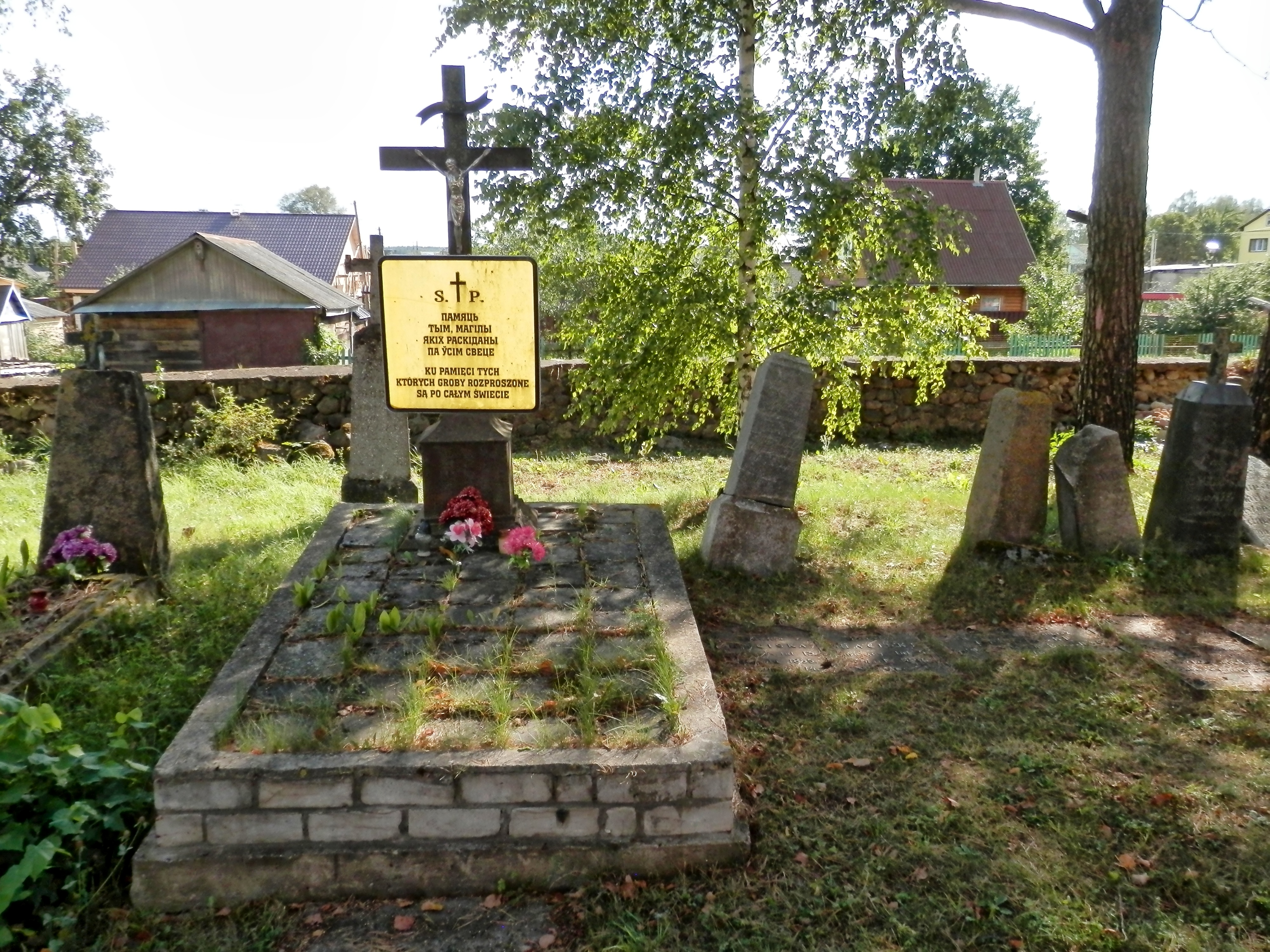 Cemetery + Franciscan Church of Saint Alex. Ivyanets, Belarus